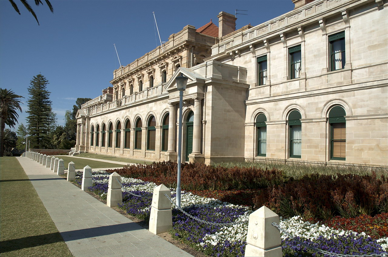 Parliament House, Perth - Western Australia.